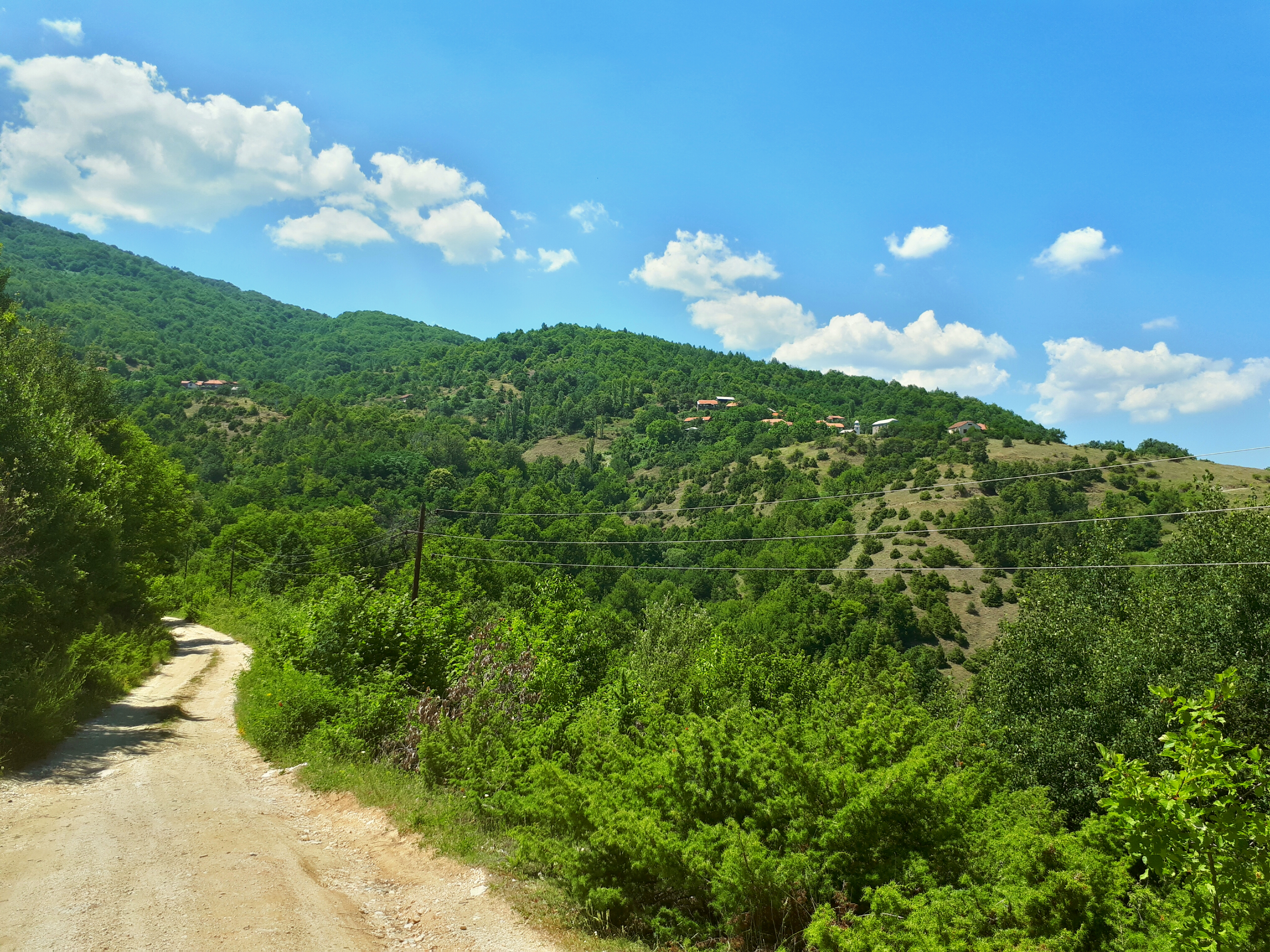 View of the village Sušica